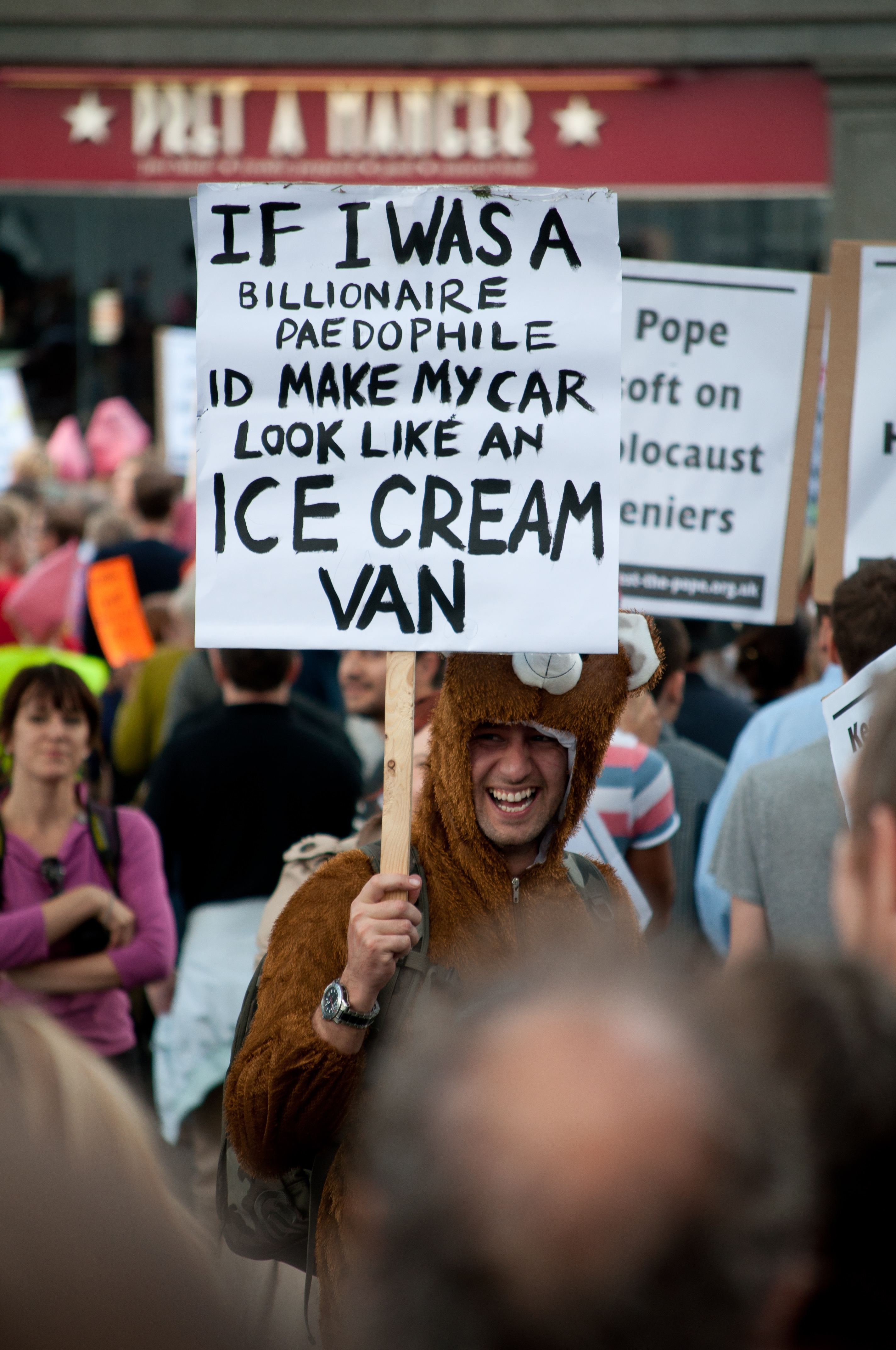 Placard at the Protest the Pope Rally in London. Taken on Saturday the 18th of September 2010.